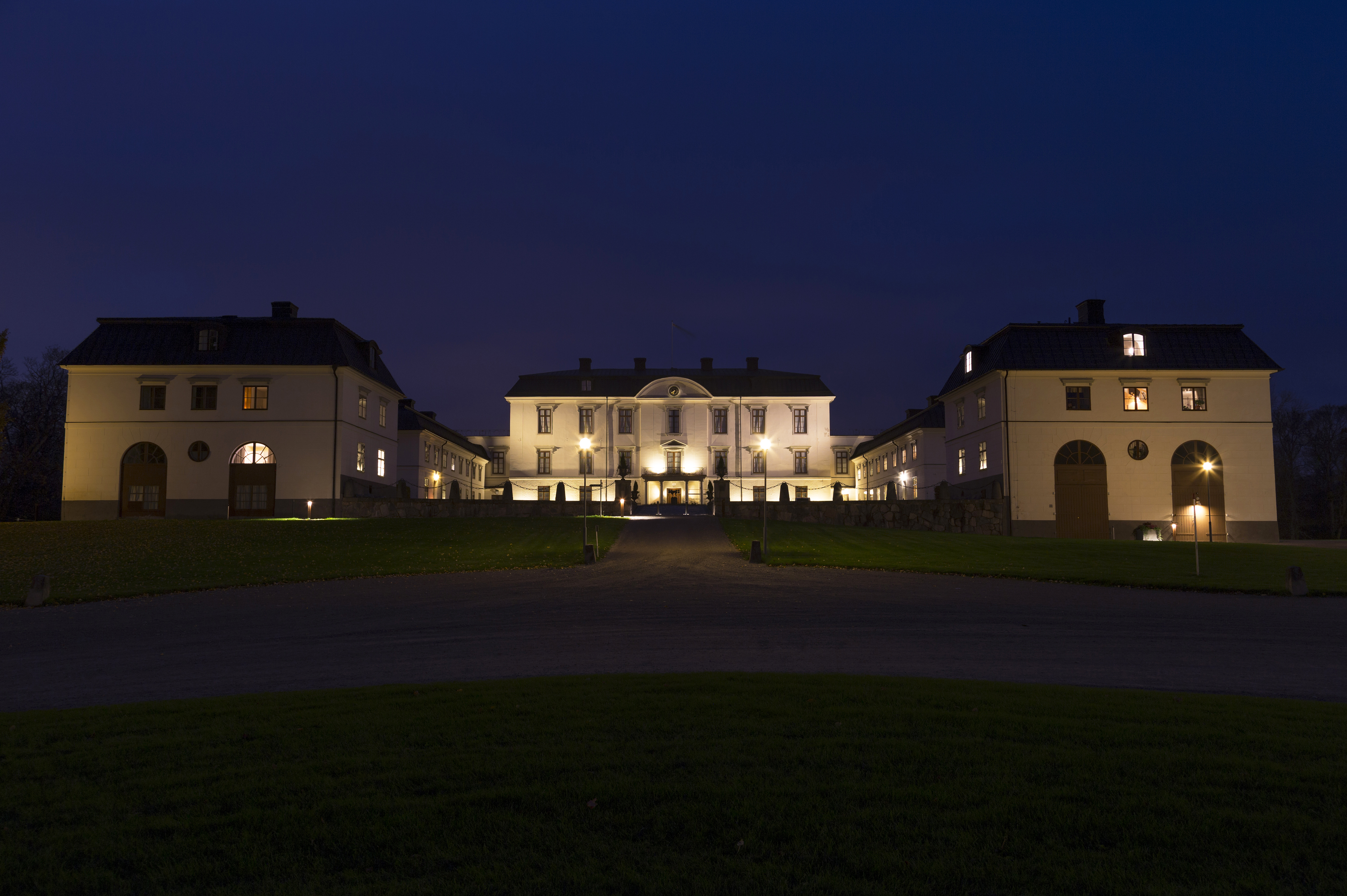 Rosersberg Royal Palace Close to Stockholm - Arlanda Airport North of Stockholm City